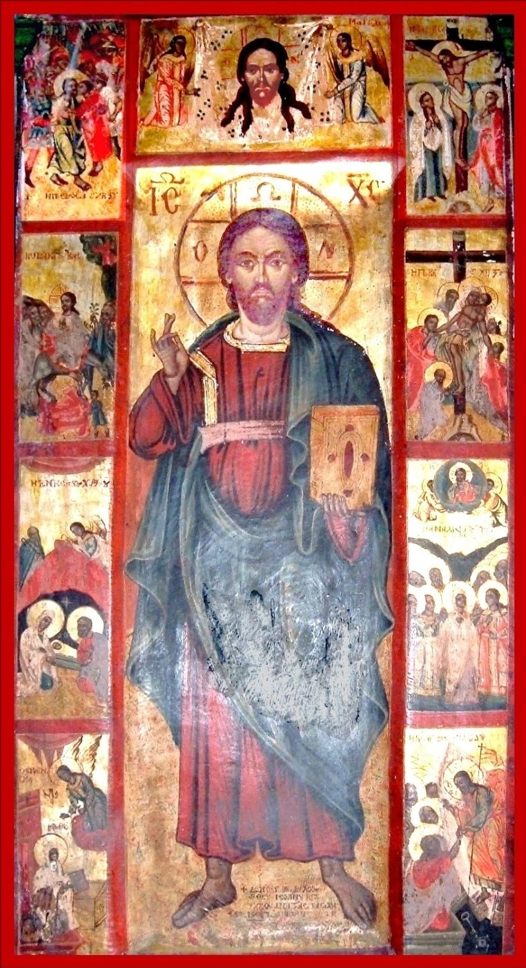 Argir_Mihaylov_Icon in Saint Mary Church in Starichani Lakkomata